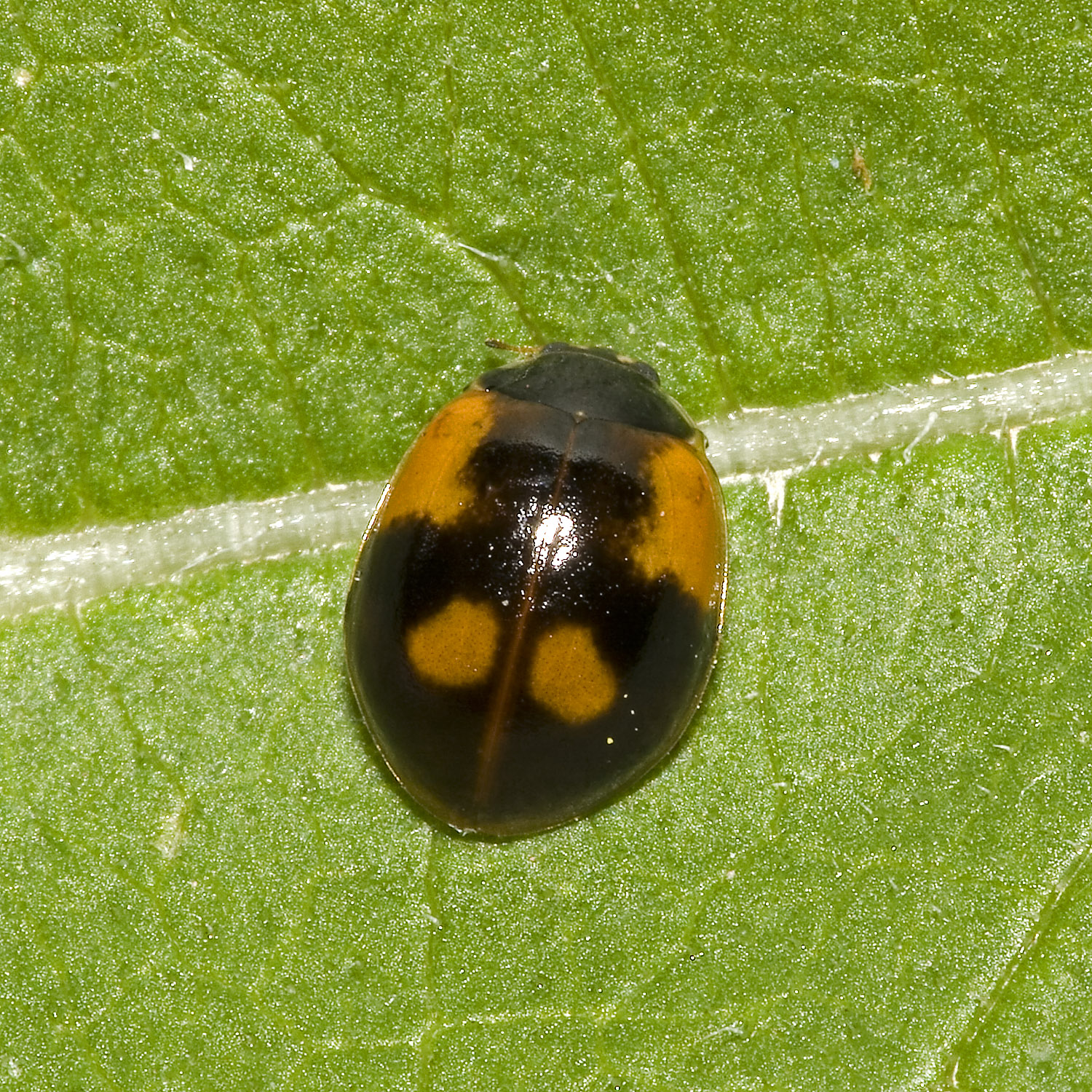 Two-spotted lady beetle, Adalia bipunctata